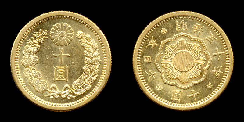 10yen-M30